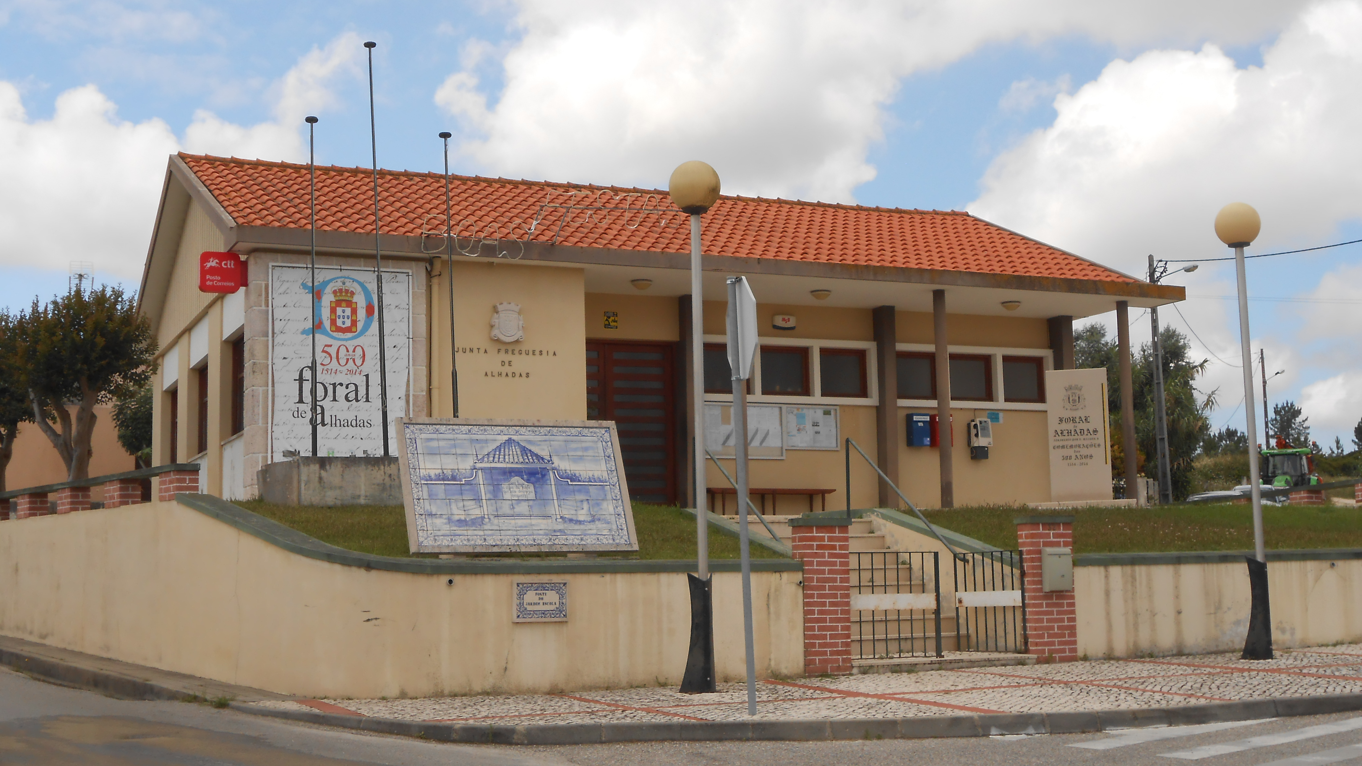 The public administration building (Junta de Freguesia) of the arish of Alhadas, located in Alhadas de Baixo.